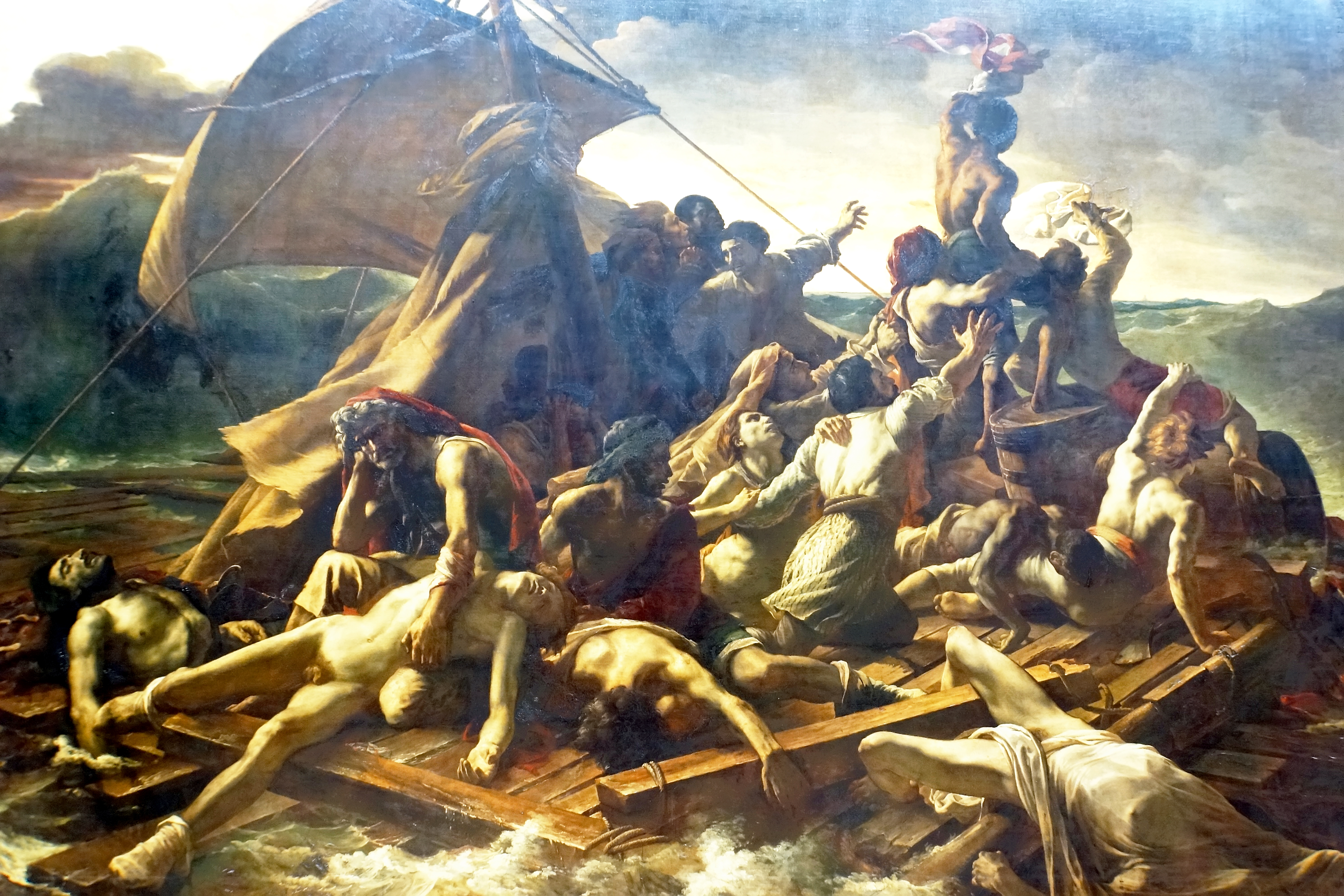 PLEASE, NO invitations or self promotions, THEY WILL BE DELETED. My photos are FREE to use, just give me credit and it would be nice if you let me know, thanks. The Raft of the Medusa is an oil painting of 1818–1819 by Théodore Géricault (1791–1824). It depicts a moment from the aftermath of the wreck of the French naval frigate Méduse, which ran aground off the coast of today's Mauritania on July 5, 1816. At least 147 people were set adrift on a hurriedly constructed raft; all but 15 died in the 13 days before their rescue, and those who survived endured starvation and dehydration and practiced cannibalism. The event fascinated the young artist, and before he began work on the final painting, he undertook extensive research and produced many preparatory sketches. He interviewed two of the survivors, and constructed a detailed scale model of the raft. His efforts took him to morgues and hospitals where he could view, first-hand, the colour and texture of the flesh of the dying and dead.